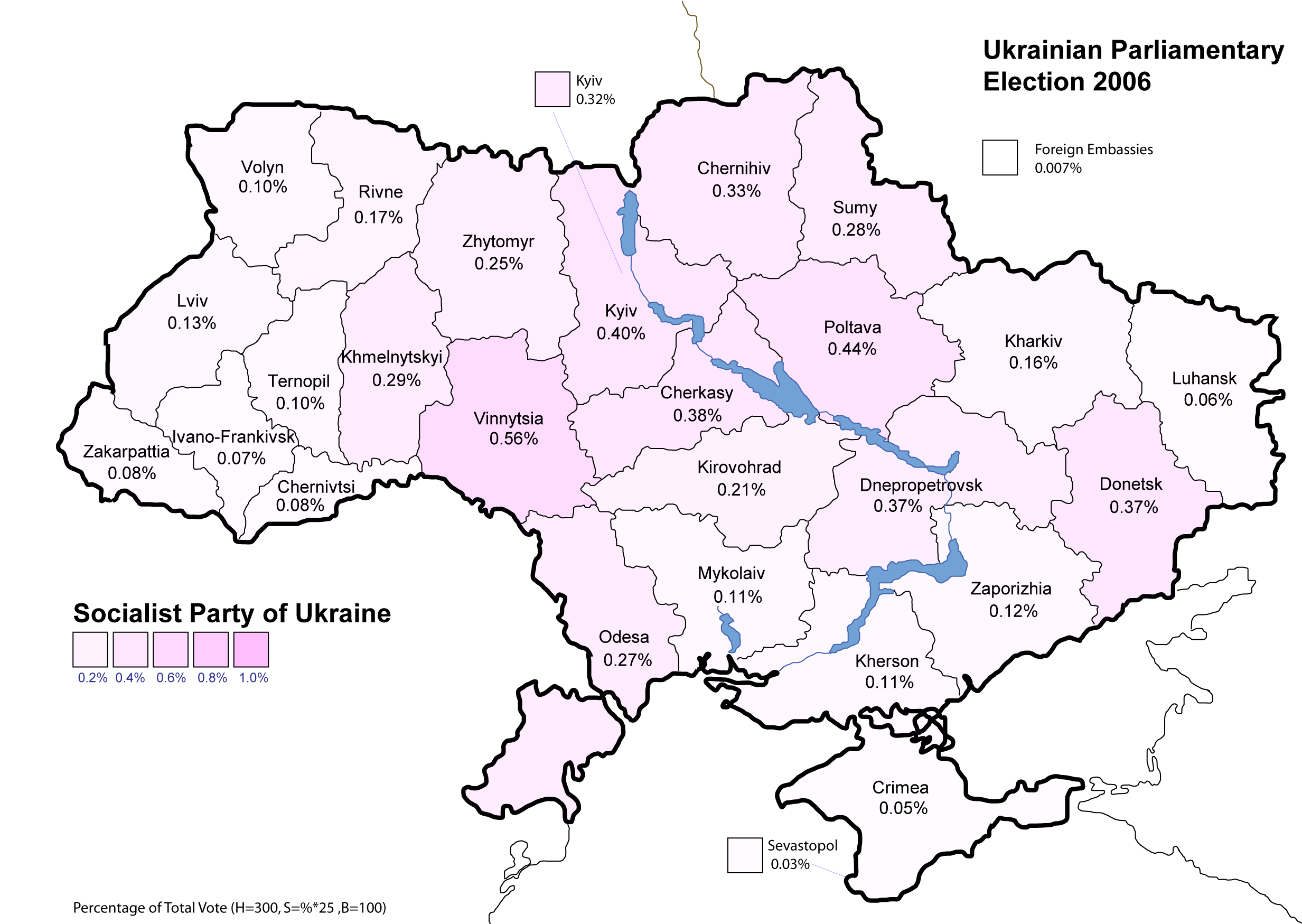 Ukrainian Parliamentary Election 2006 - Socialist Party of Ukraine(verbose) percentage of total national vote (H=300, C=%*25, B=100)